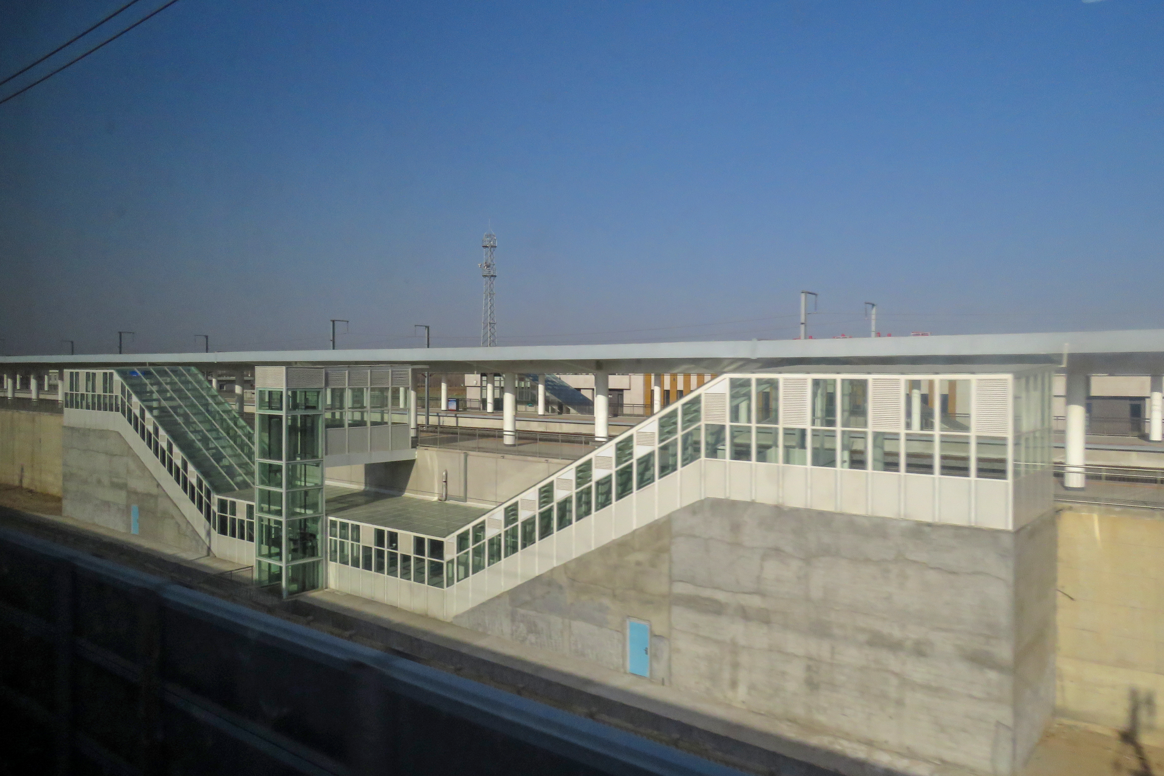 Missed that CRH2 on the tracks.